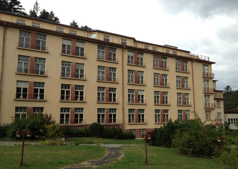 Hospital in Kvetnica